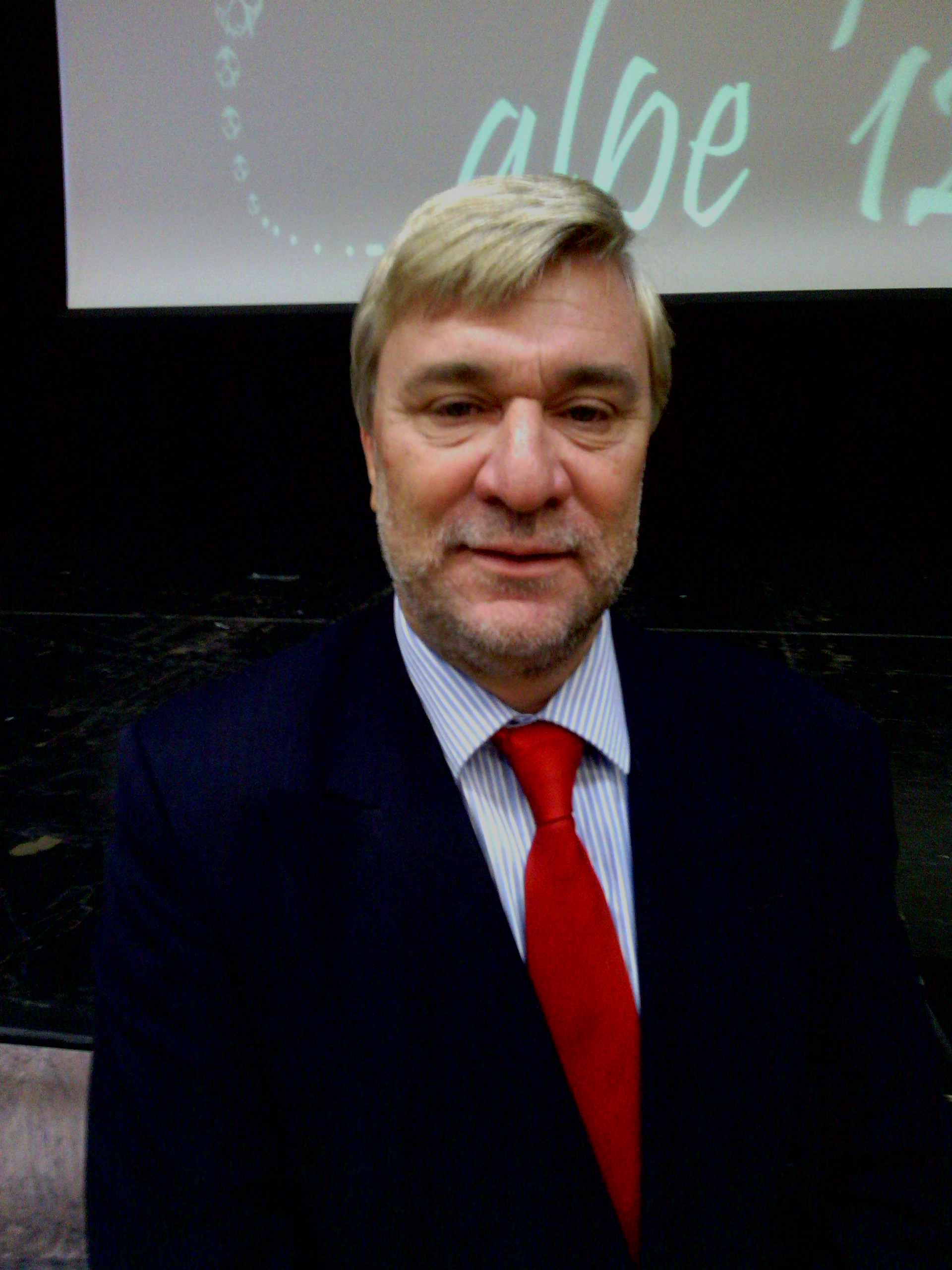 Steven Linares Minister for Sport Culture and .... in Gibraltar at the Calpe Conference 2012